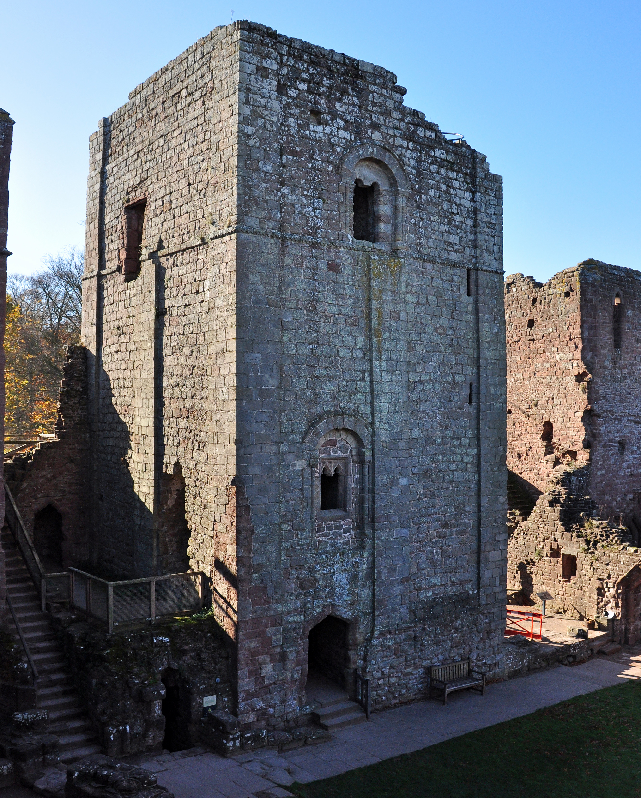 The keep in Goodrich Castle in Herefordshire.